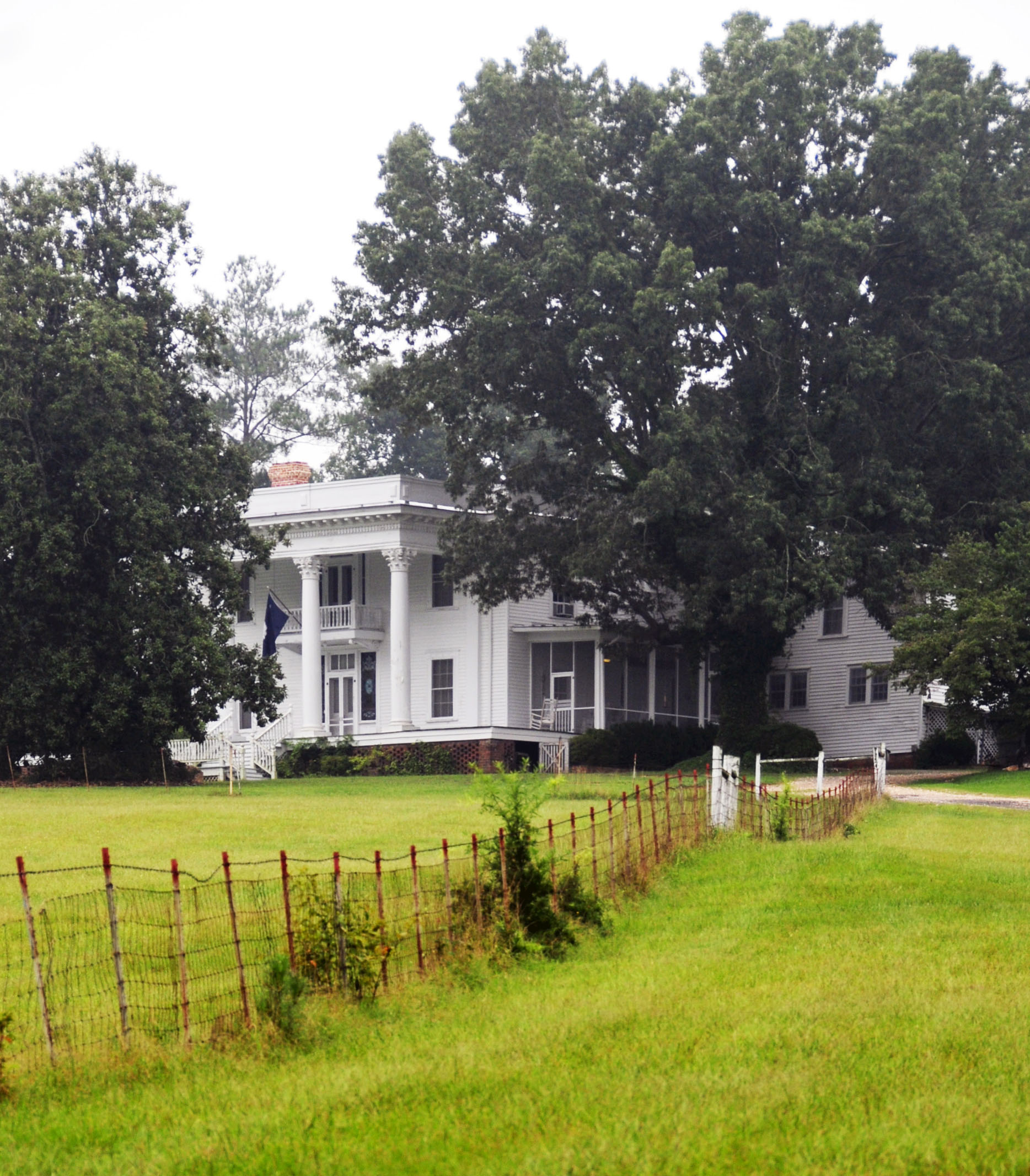 Whitehall